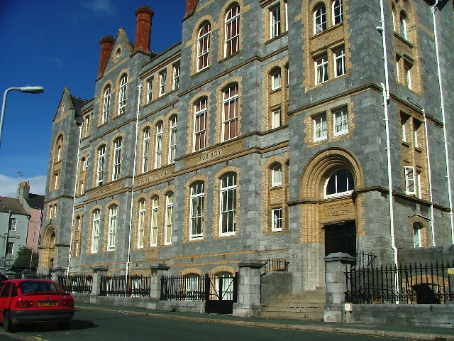 Sutton High School for Boys, Regent Street. North of the Barbican, but overlooking Sutton Pool from its upper windows is the building that formerly housed one of the city's top grammar schools; now made over to 'luxury' apartments.